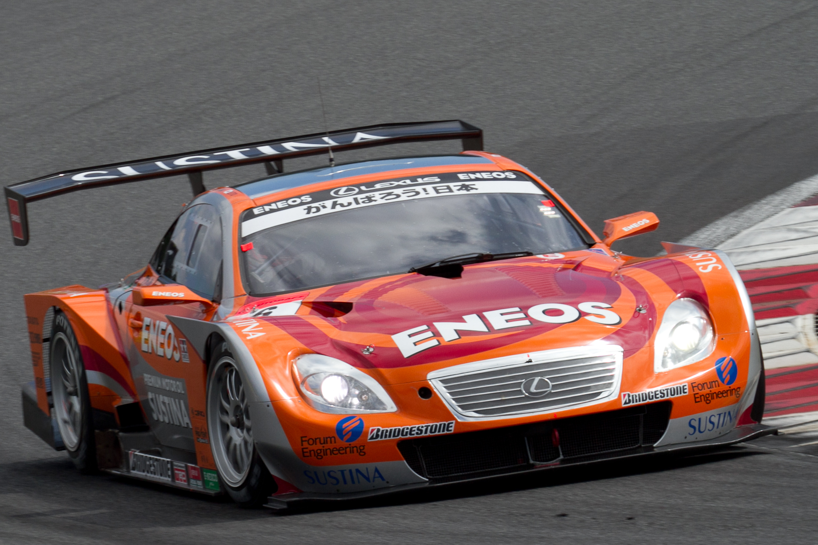 Super GT 2011 Rd.6 Fuji GT 250km: Kazuya Oshima (Lexus Team LeMans ENEOS) driving the Lexus SC GT500.